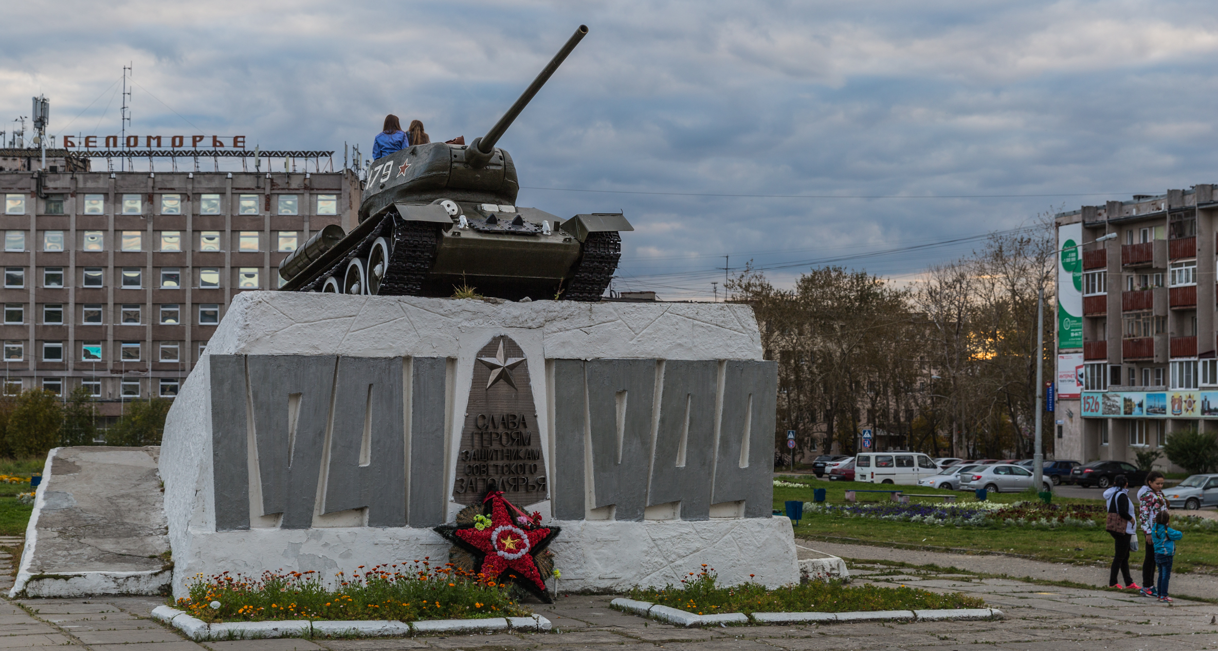 Kandalaksha War Memorial WWII. The tank on Kandalaksha's central square.